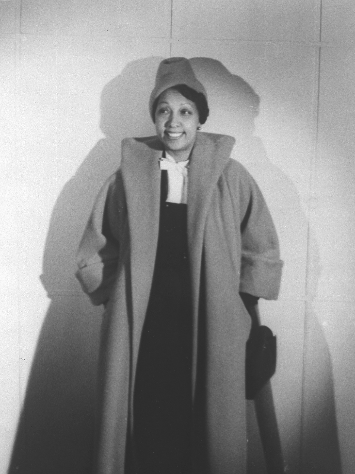 Josephine Baker photographed by Carl Van Vechten Portrait of Josephine Baker, October 10, 1949